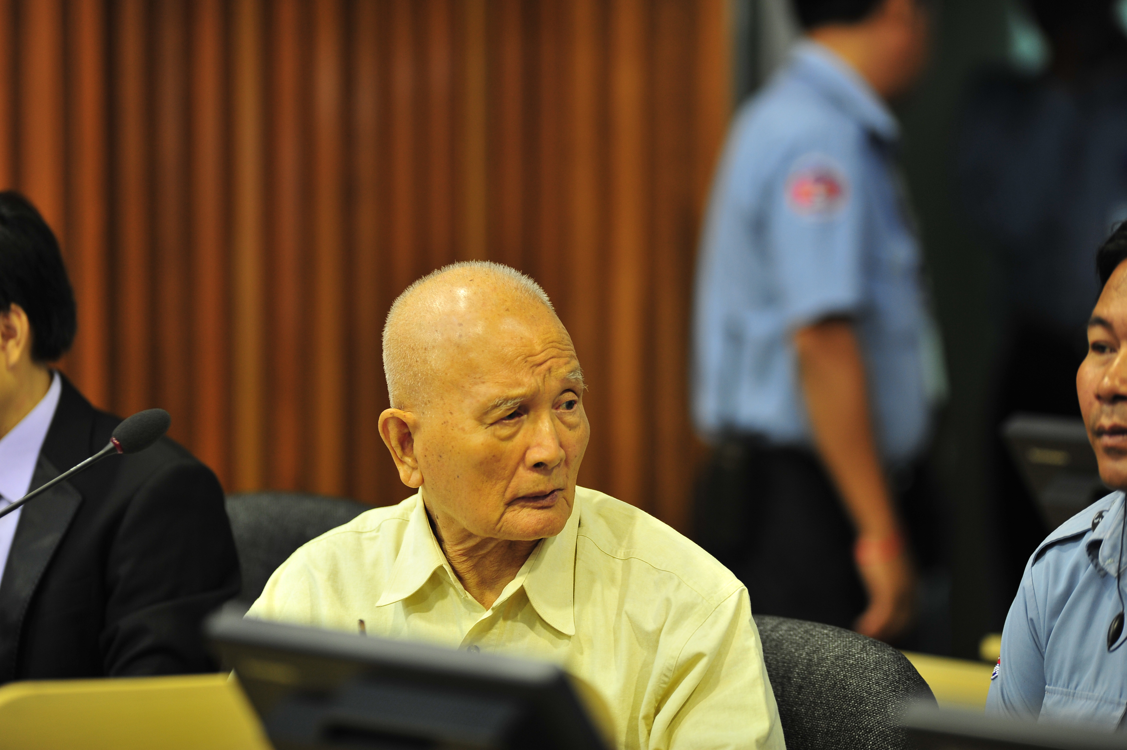 Nuon Chea during a Trial Chamber hearing on 31 Jan 2011. Nuon Chea requested to be release from provisional detention pending his trial, which is expected to commence later this year (2011). Khieu Samphan, Nuon Chea and Ieng Thirith appeared together before the ECCC Trial Chamber for the first time in a public hearing on Monday 31 Jan 2011. ... នួន ជា នៅក្នុងសវនាការនៃអង្គជំនុំជម្រះសាលាដំបូង ថ្ងៃទី៣១ ខែមករា ឆ្នាំ២០១១។ នួន ជា បានស្នើសុំឲ្យតុលាការដោះលែងគាត់ពីមន្ទីរឃុំឃាំងបណ្តោះអាសន្ន មុនពេលសវនាការសម្រាប់រូបគាត់ ដែលត្រូវបានរំពឹងថានឹងចាប់ផ្តើមនៅក្នុងឆ្នាំនេះ (២០១១)។ ខៀវ សំផន, នួន ជា និងអៀង ធិរិទ្ធ បានបង្ហាញខ្លួនរួមគ្នាជាលើកទីមួយនៅចំពោះមុខអង្គជំនុំជម្រះសាលាដំបូង ក្នុងសវនាការ សាធារណៈនៅថ្ងៃច័ន្ទ ទី៣១ ខែមករា ឆ្នាំ២០១១។